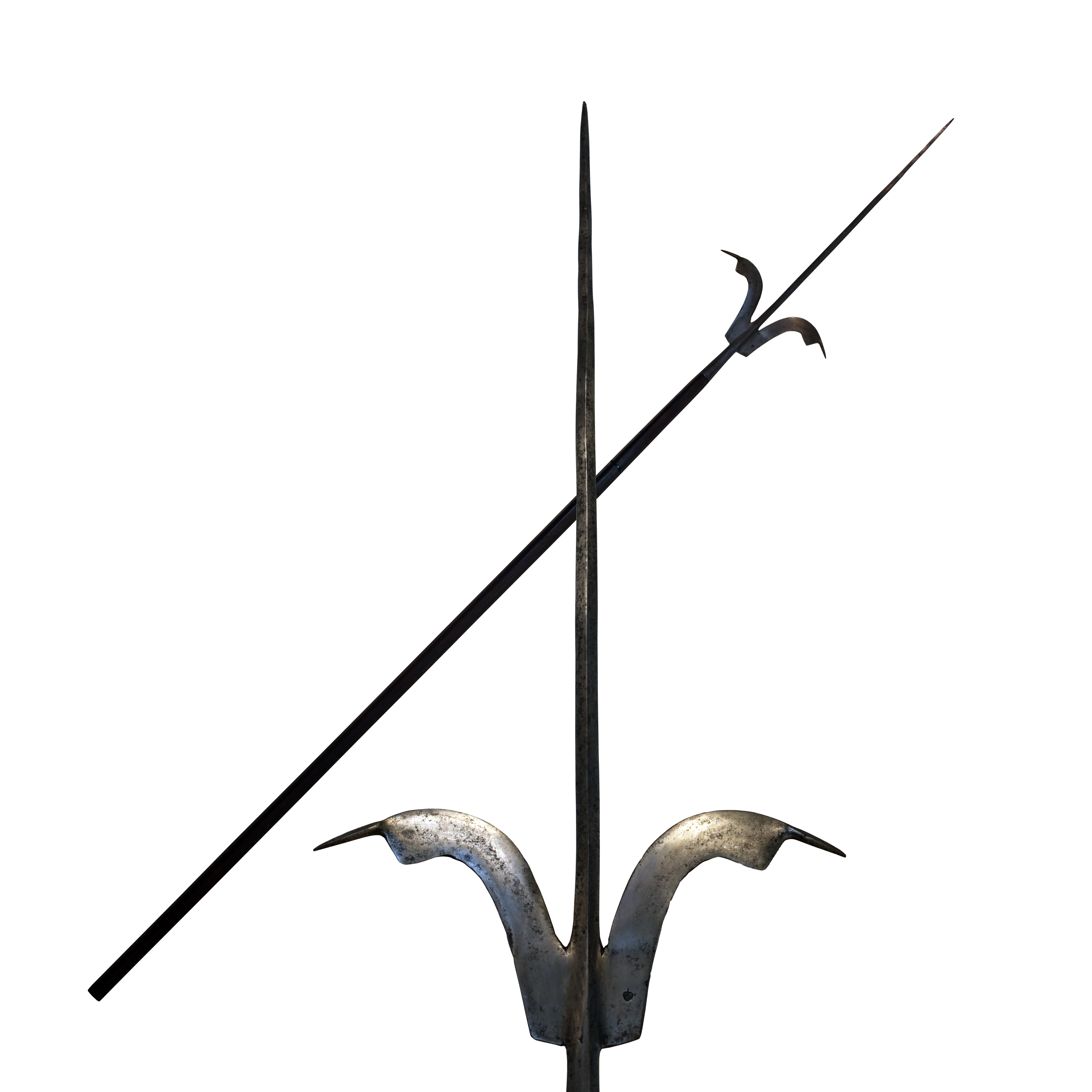 Corseque, ca. late 16th - early 17th century. About 2.75 metres overall. On display at Morges military museum, accession number 23.